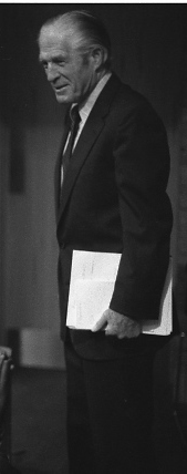 Caption (from the University of Michigan): President Ford and David Mathews, former Secretary of HEW, meet with former Michigan Governor George Romney following a session of the Fourth Presidential Library Conference on the Public and Public Policy, held at the Gerald R. Ford Library, March 18-19, 1986.